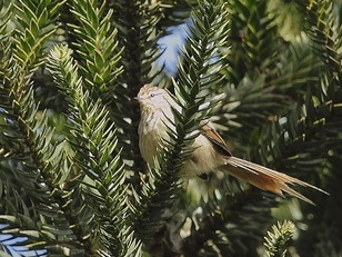 Striolated tit-spinetail; Urupema, Santa Catarina, Brazil